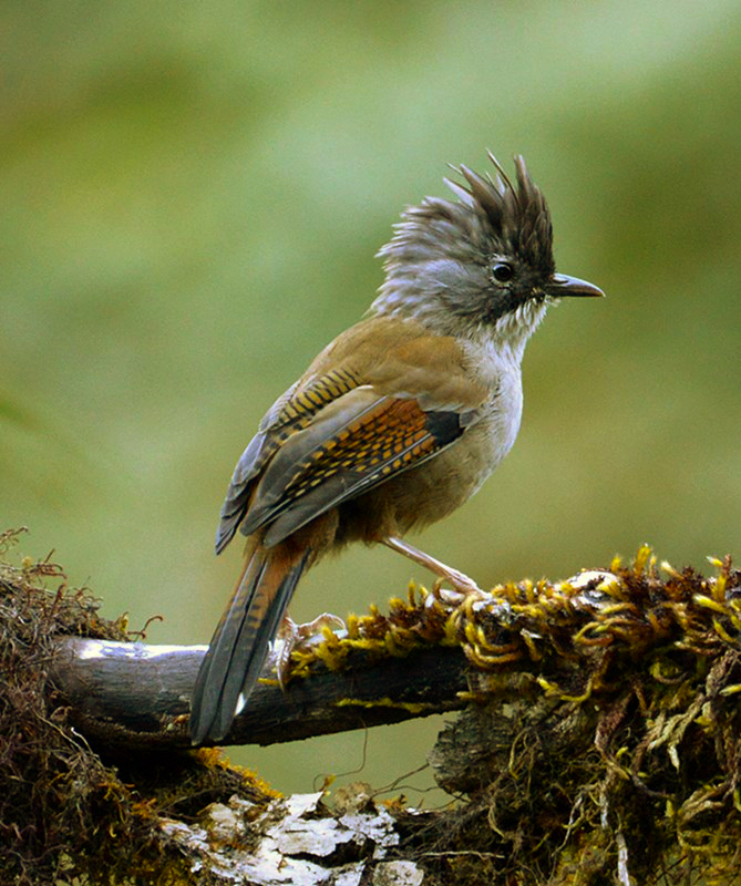 Streak-throated Barwing (Actinodura waldeni daflaensis) at Eaglenest Wildlife Sanctuary, Arunachal Pradesh, India